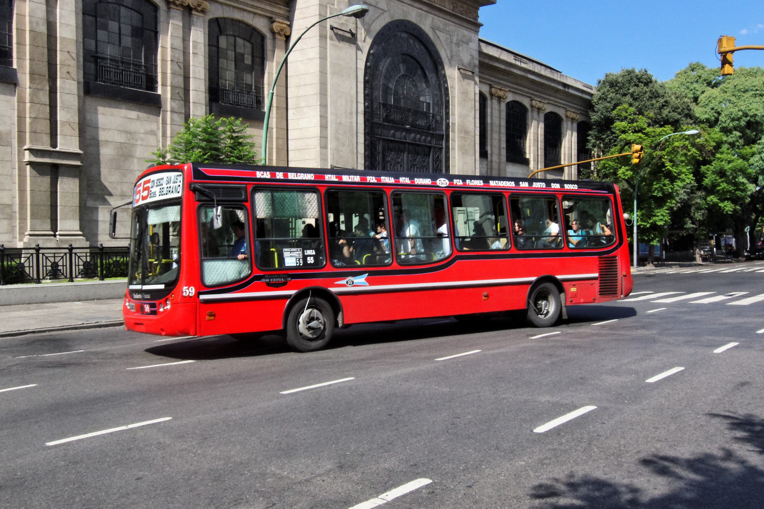 Metalpar Tronador bus (#59) with Mercedes-Benz OH 1315 L-SB chassis in Buenos Aires, Argentina. Colectivo, line 55, Almafuerte S.A.T.A.C.I. operator.